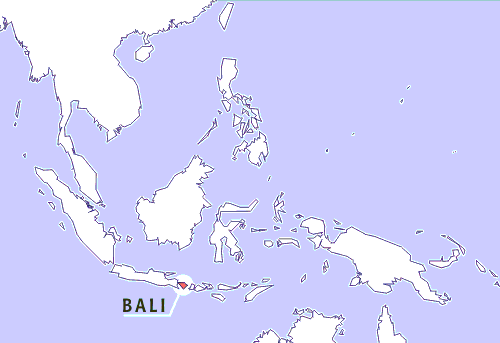 Location of Bali in Indonesia.